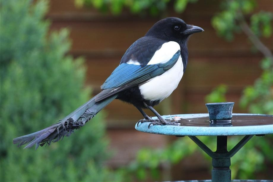 Magpie Pica pica Perched on my genuine antique bronze plastic replica bird table :-)